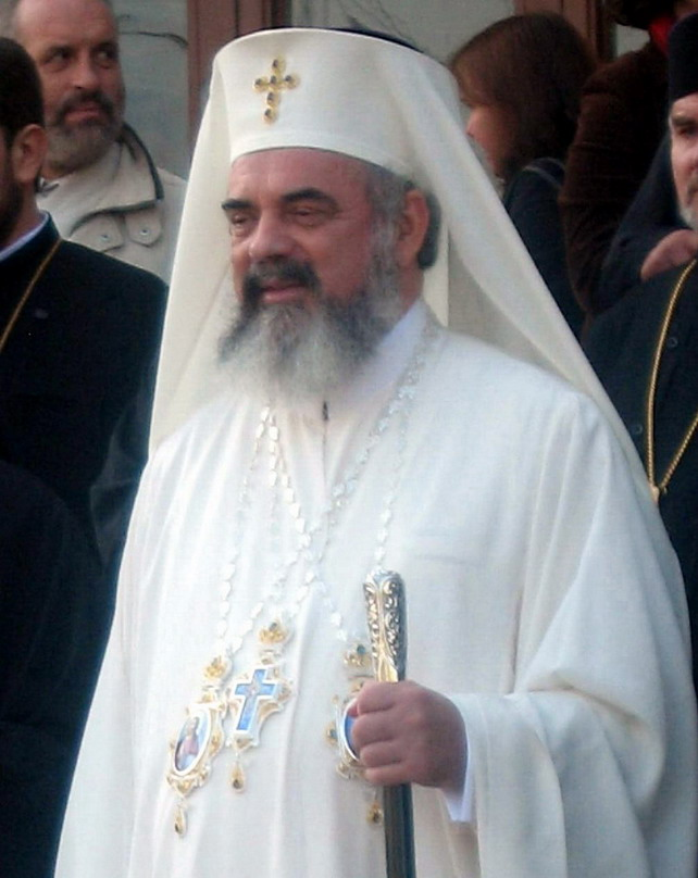 Romanian patriarch Daniel